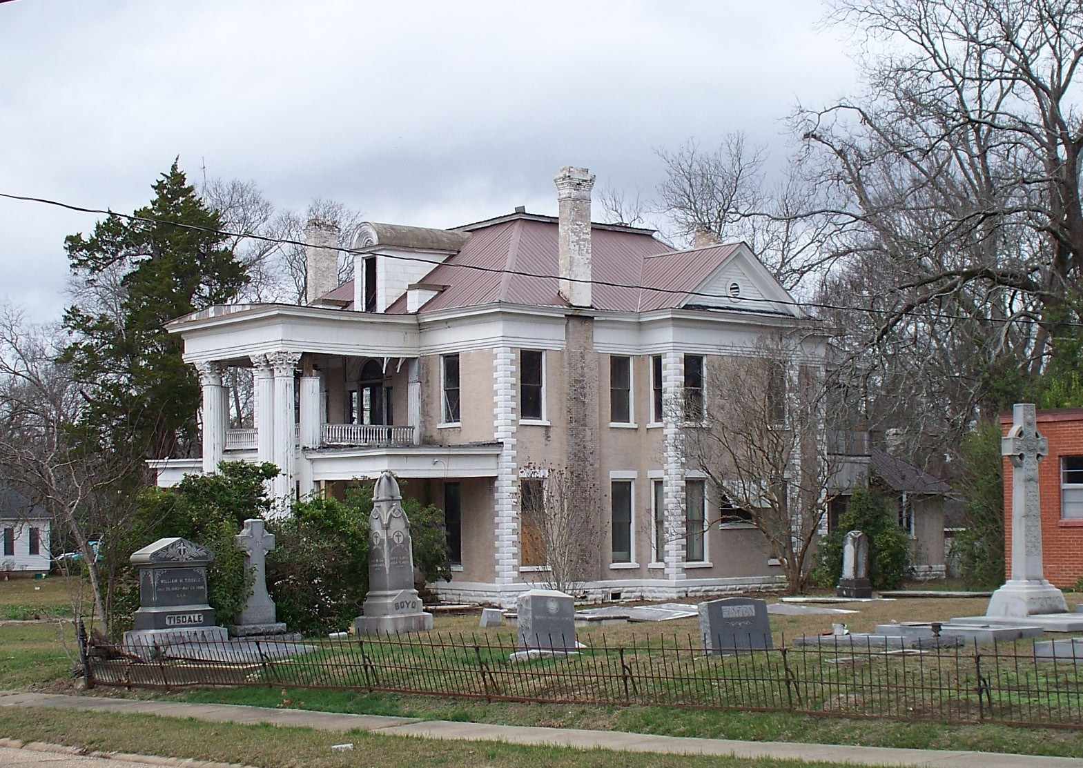 Co-Nita Manor within the Uniontown Historic District in Uniontown, Alabama. The district is on the National Register of Historic Places.